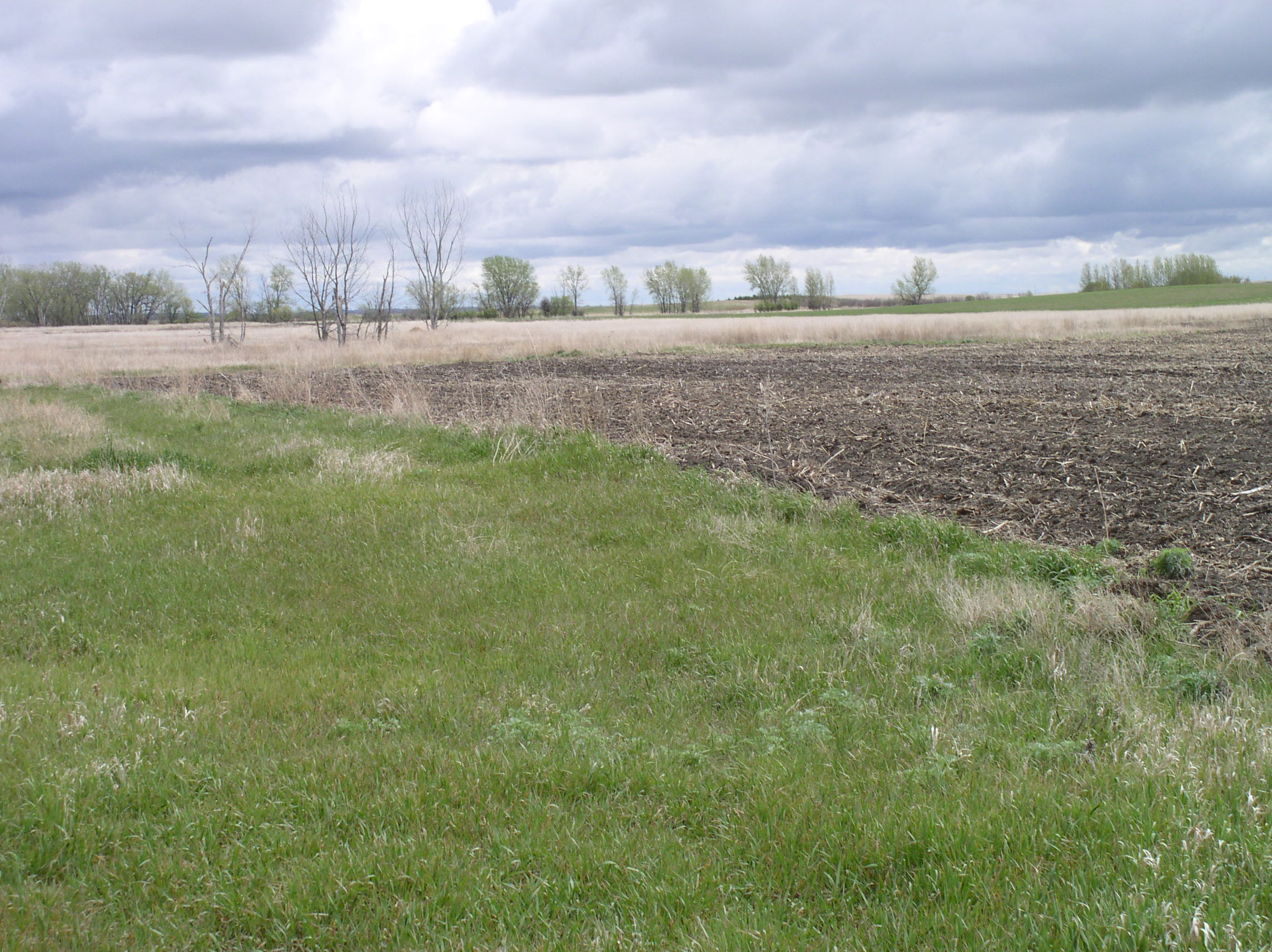 Farmland in Campbell County, South Dakota, USA